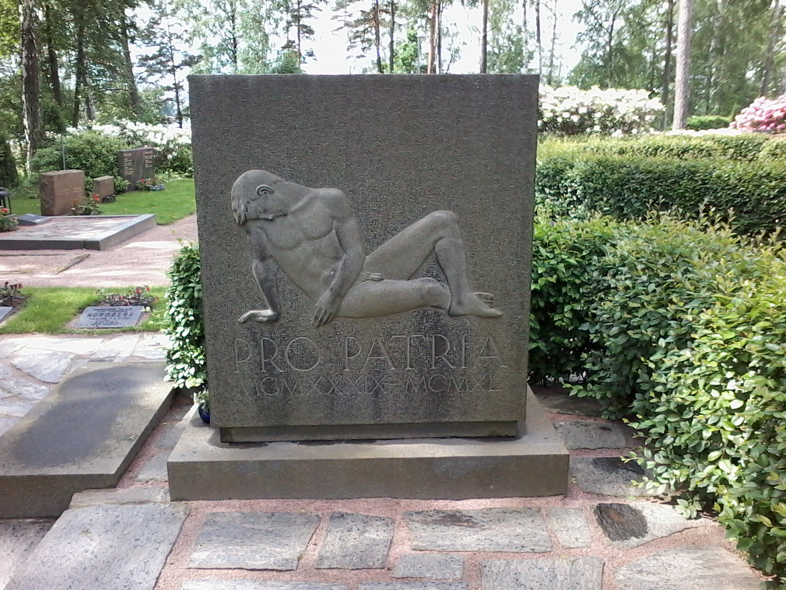 Pro Patria Memorial (1939-1945), Kulosaari cemetery Helsinki. Designed by Arne Helander, relief designed by Ben Renvall.